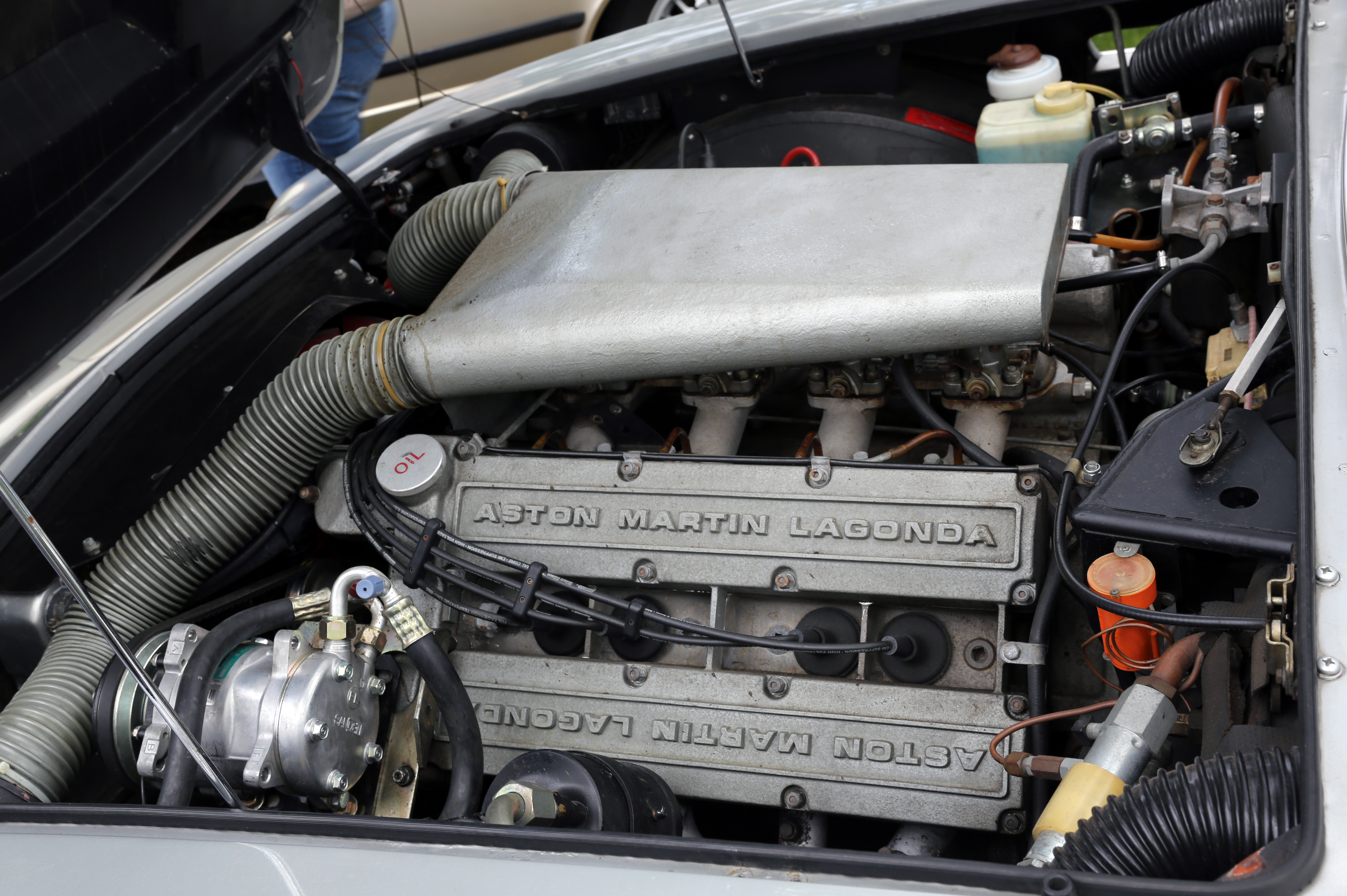 Aston Martin V8 engine, the 5340cc unit developed by Tadek Marek. This particular engine was built by Frank Matthews, a veteran employee who had also been trusted to build the engine in AM chairman Victor Gauntlett's personal car.